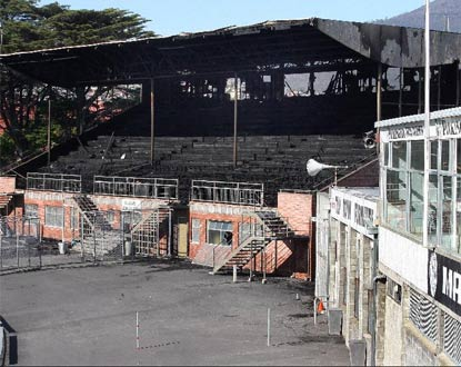 The Cresswell-Beakley Stand, opened in 1962 in ruins two days after the fire.